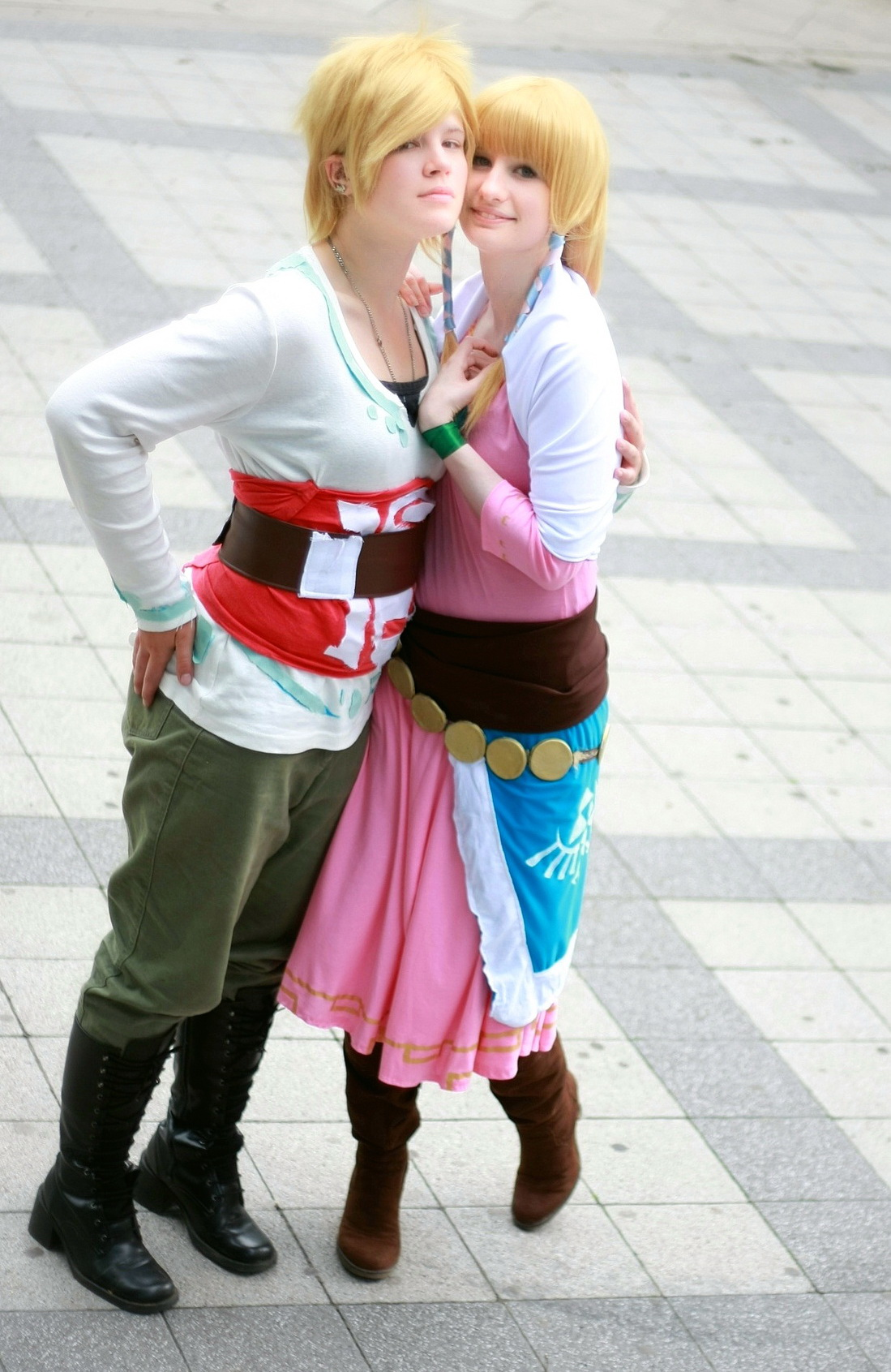 Cosplayers of the characters from the series The Legend of Zelda at the German convention Contopia 2012.